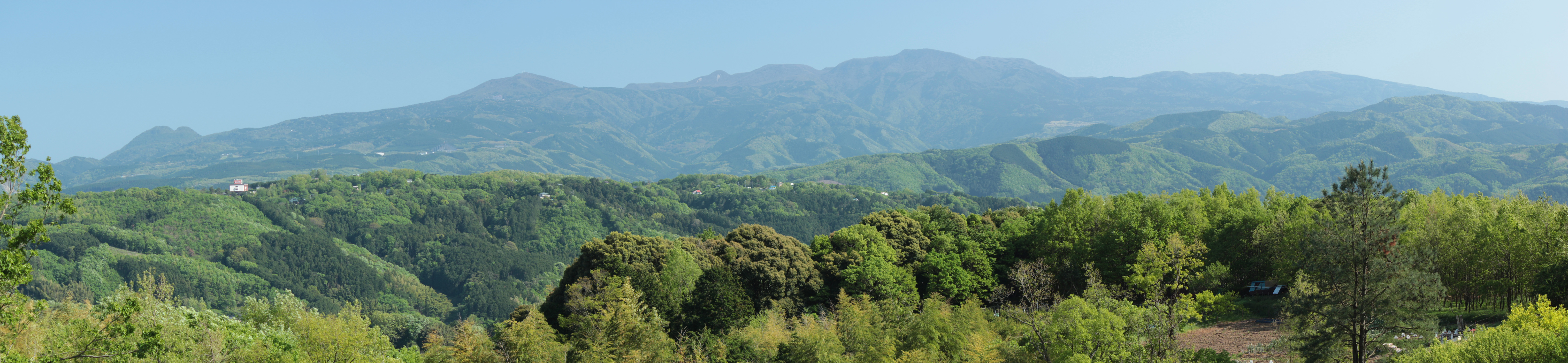 Mount Amagi as seen from the north in Izu Peninsula, Shizuoka Prefecture. Taken from the northern Izu.